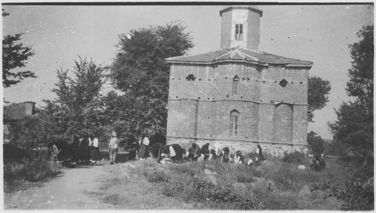 Antante troops next to church in Popolzhani, today Papagianis, Florina prefecture, in 1917